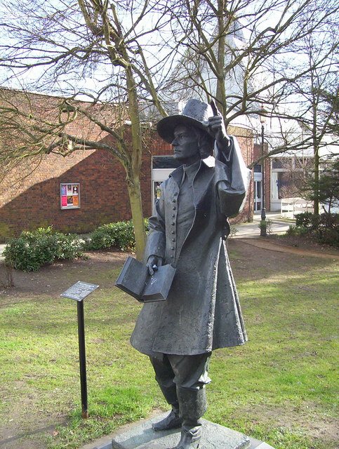 Quaker Sculpture. The Hertford Millennium sculpture 1999. The Reverend Samuel Stone born Hertford 1602, co-founder of Hertford Connecticut U.S.A.